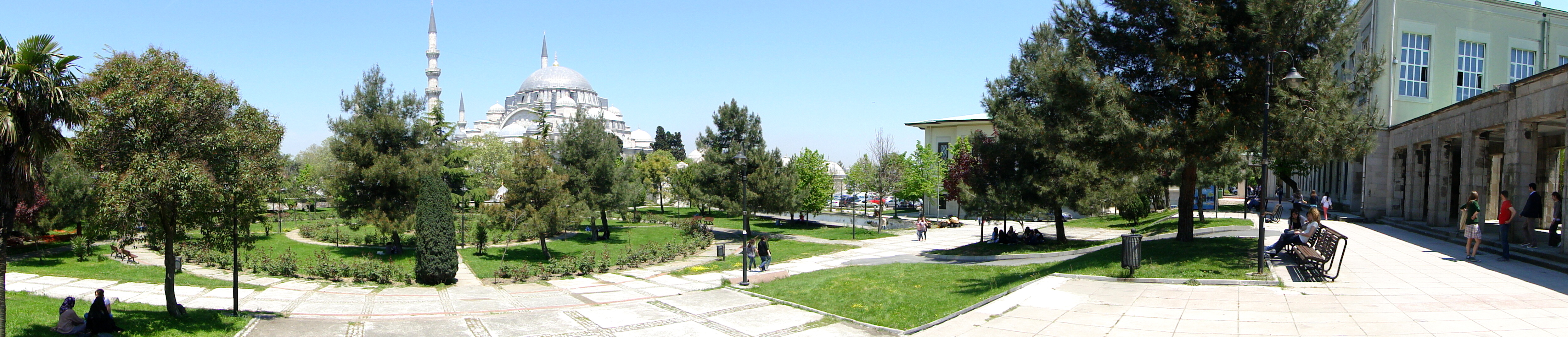 Panorama of Istanbul University Campus - Suleymaniye Mosque at Rear - Suleymaniye District - Istanbul - Turkey